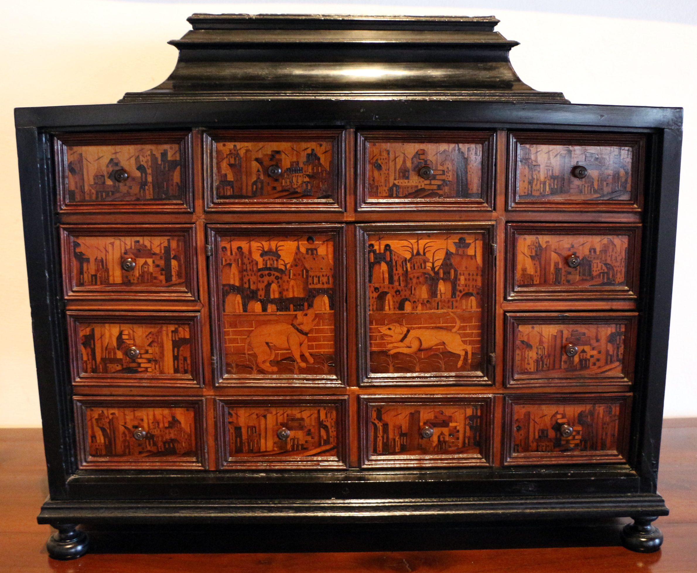 Palazzo Ducale (Gubbio)